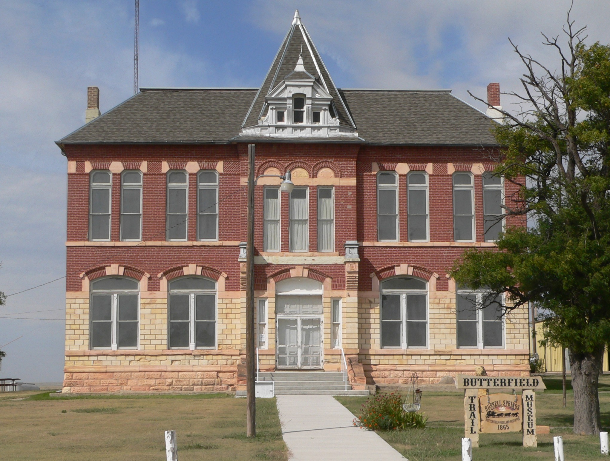 Butterfield Trail Museum, formerly the Logan County courthouse, in Russell Springs, Kansas; seen from the east.